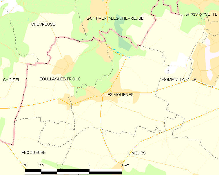 Map of French municipality Les Molières